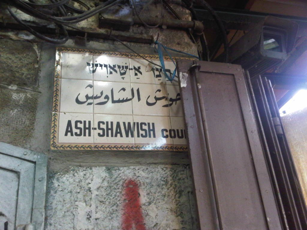 A photograph of a street sign reading "Shawish Neighbourhood" In Hebrew, Arabic and English. Taken at the street in Souq Khan Alzait, Jerusalem, Old City.